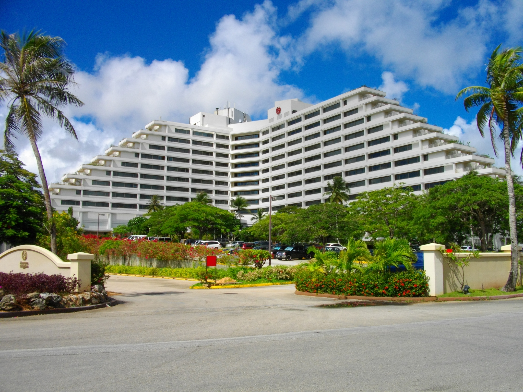 Sheraton Laguna Guam Resort